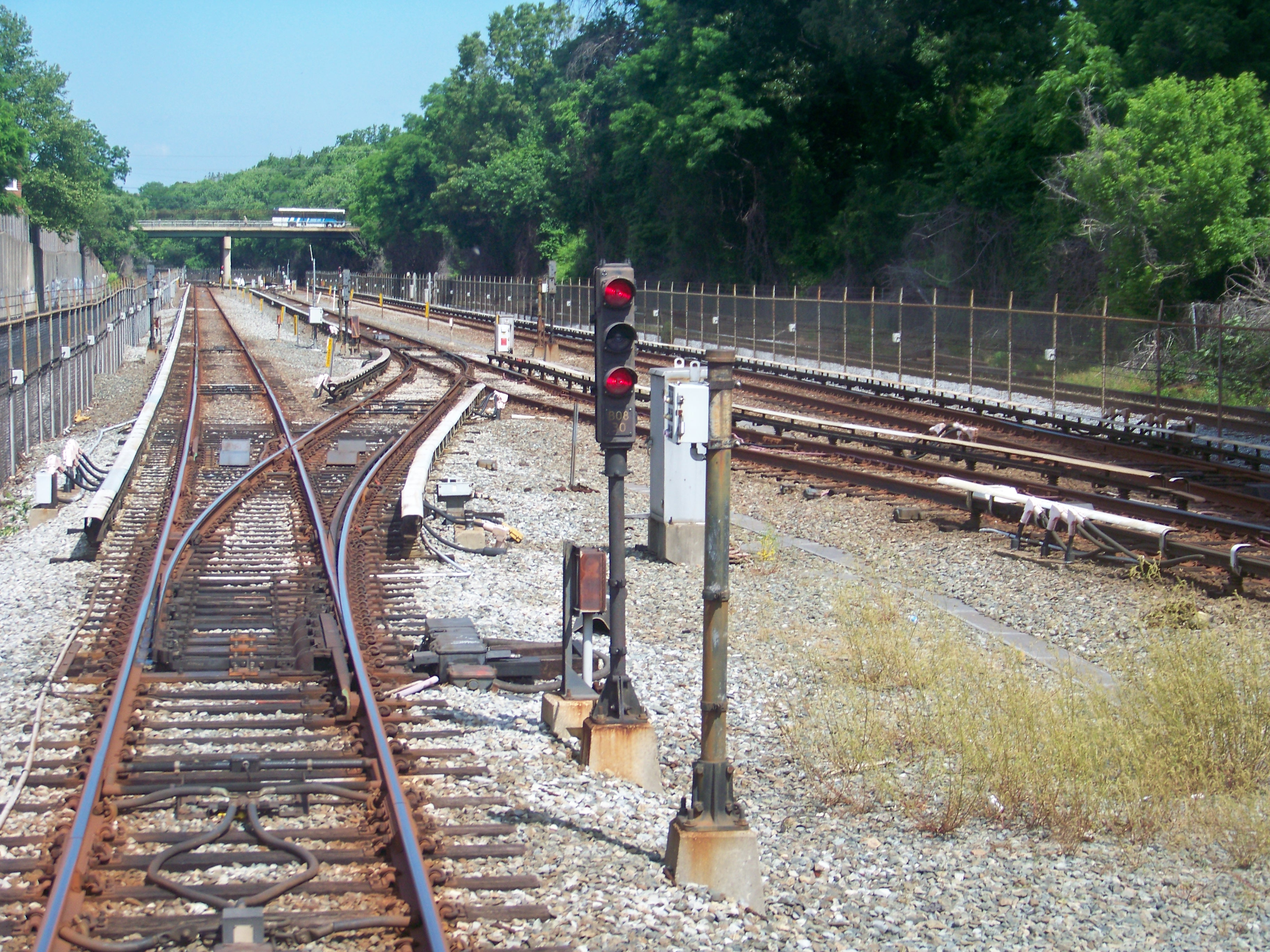 Silver Spring pocket track on the Washington Metro, showing a red signal. This pocket track is just north of Silver Spring station, and is used to turn trains terminating at Silver Spring.